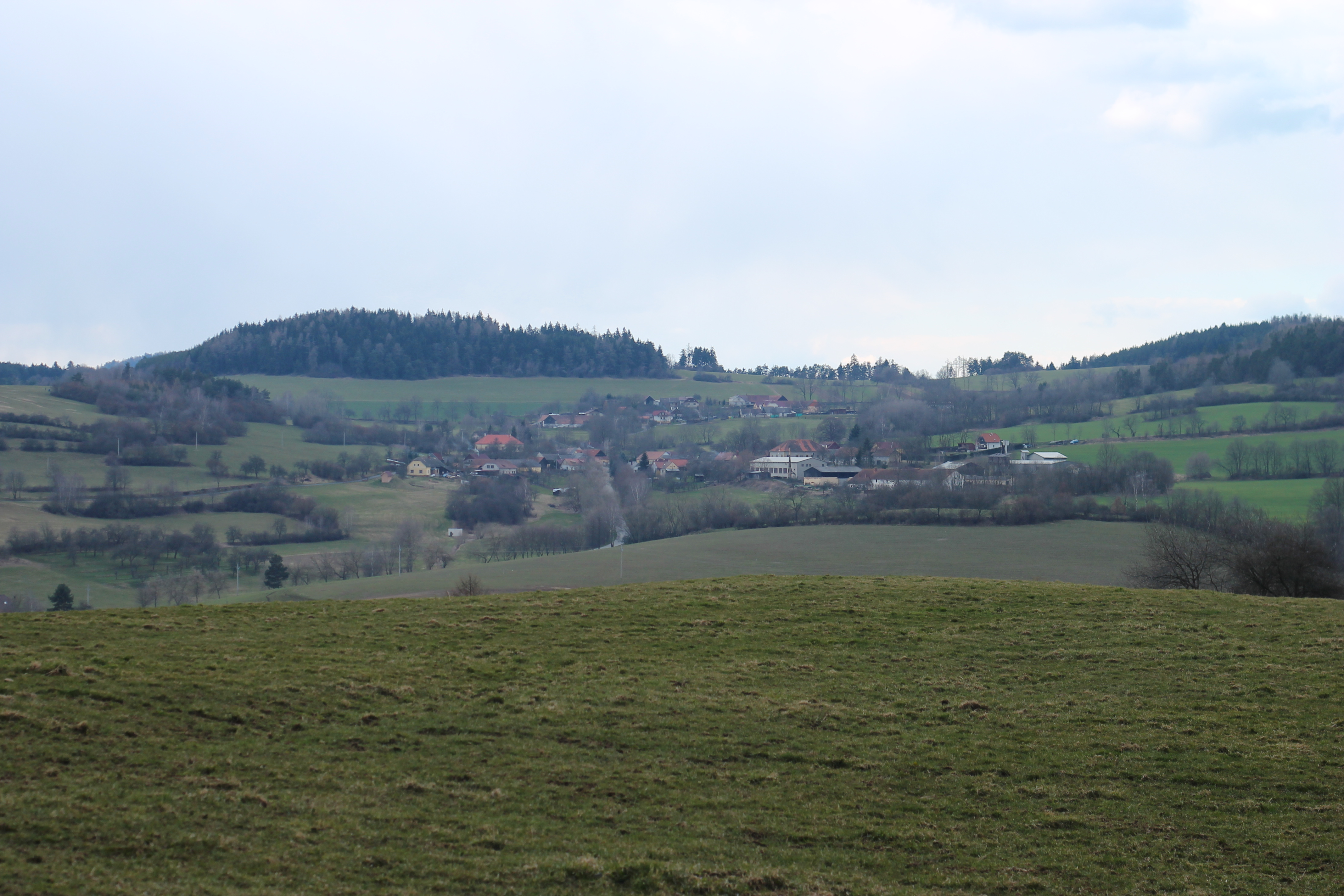 Remote view of Dřešínek